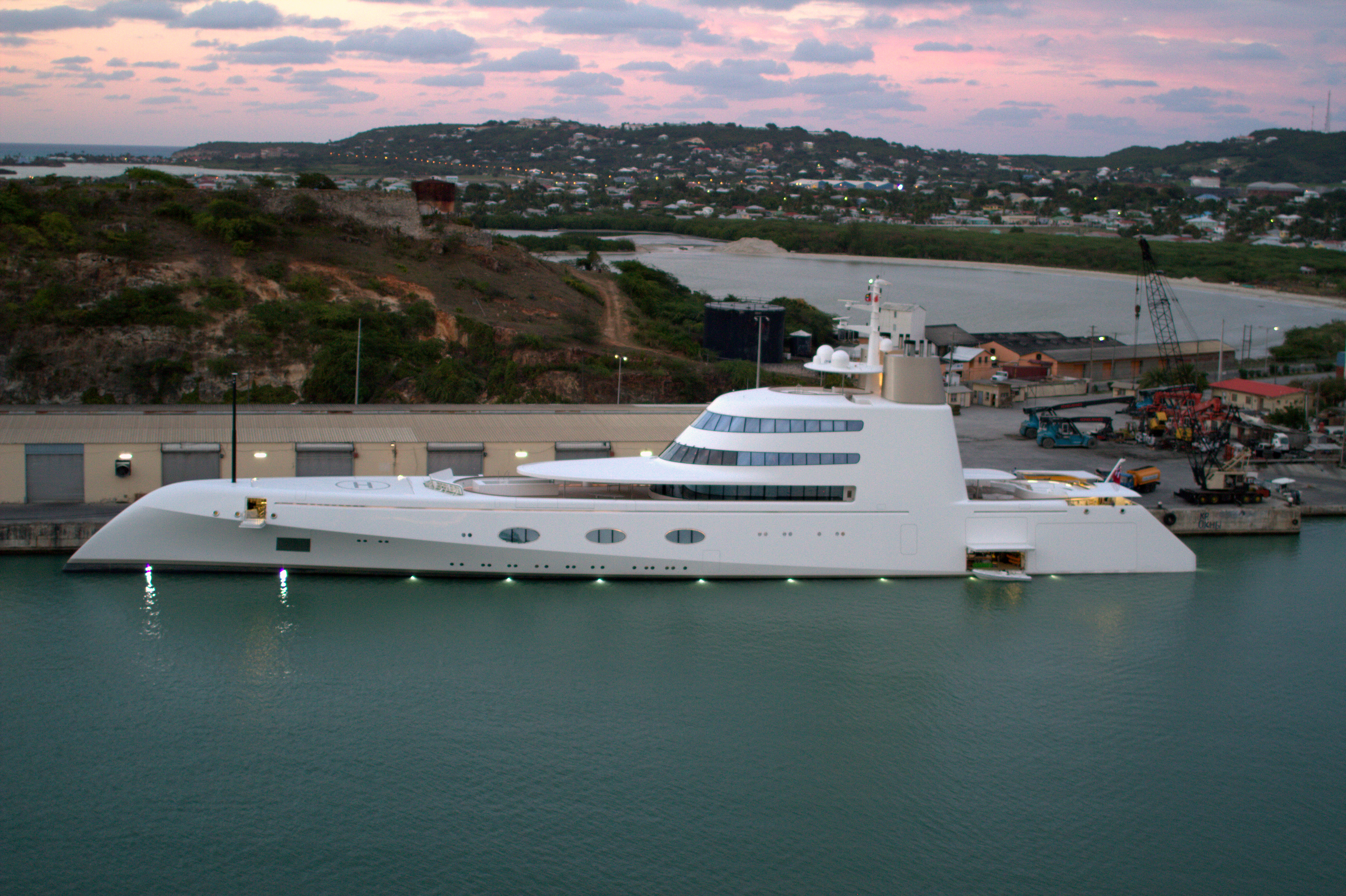 Photo of Super Yacht "A" in harbor of St Johns Antigua